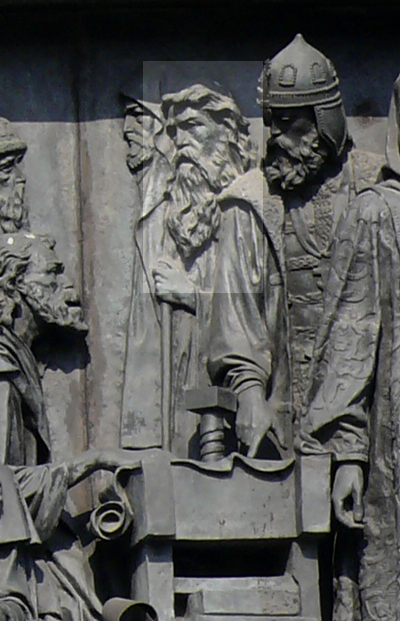 Archbishop Gury on the Monument "Millennuim of Russia" in Veliky Novgorod